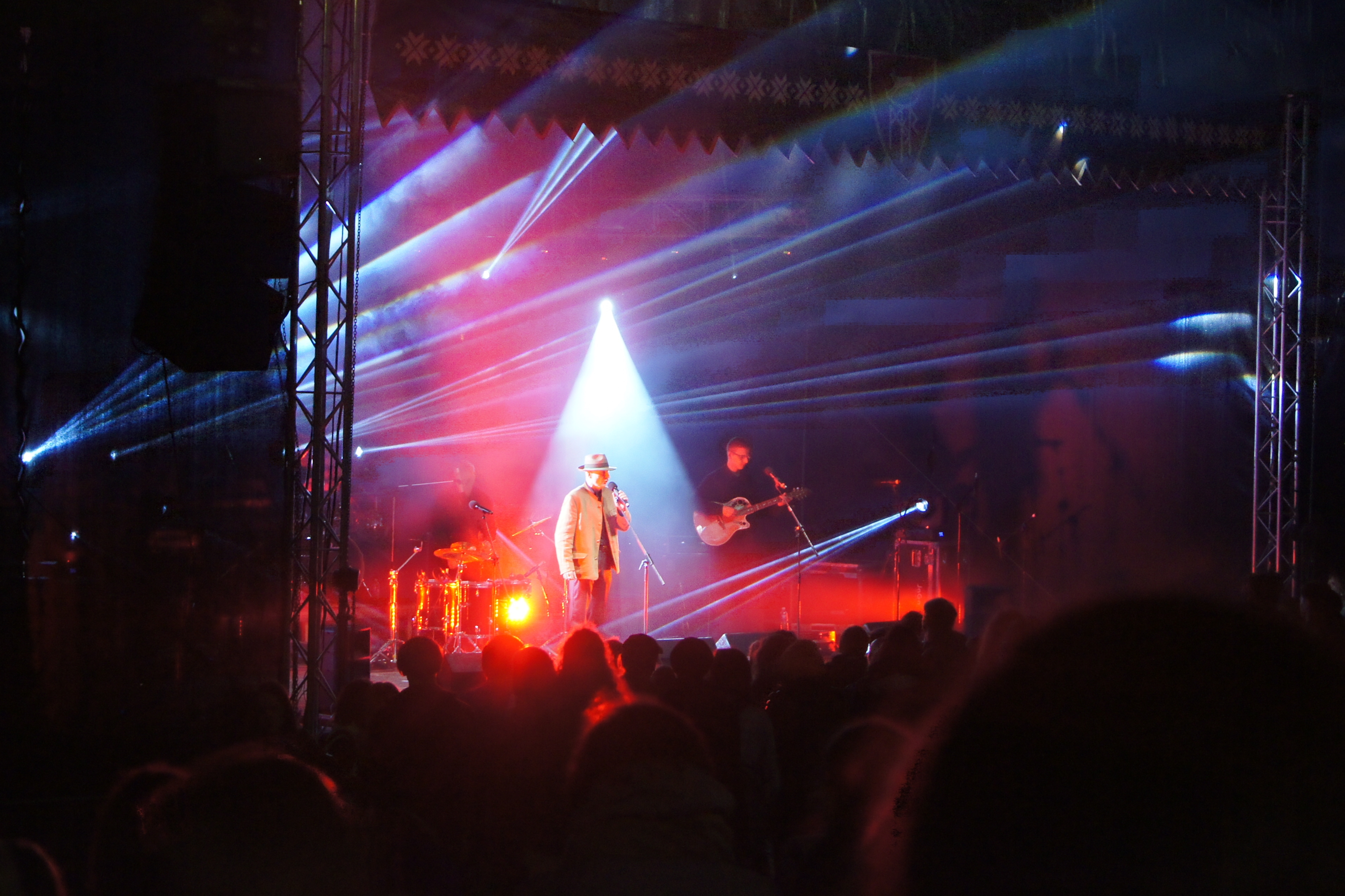 Fire + Ice at Mėnuo Juodaragis XVILietuvių: Fire + Ice Mėnuo Juodaragyje XVI